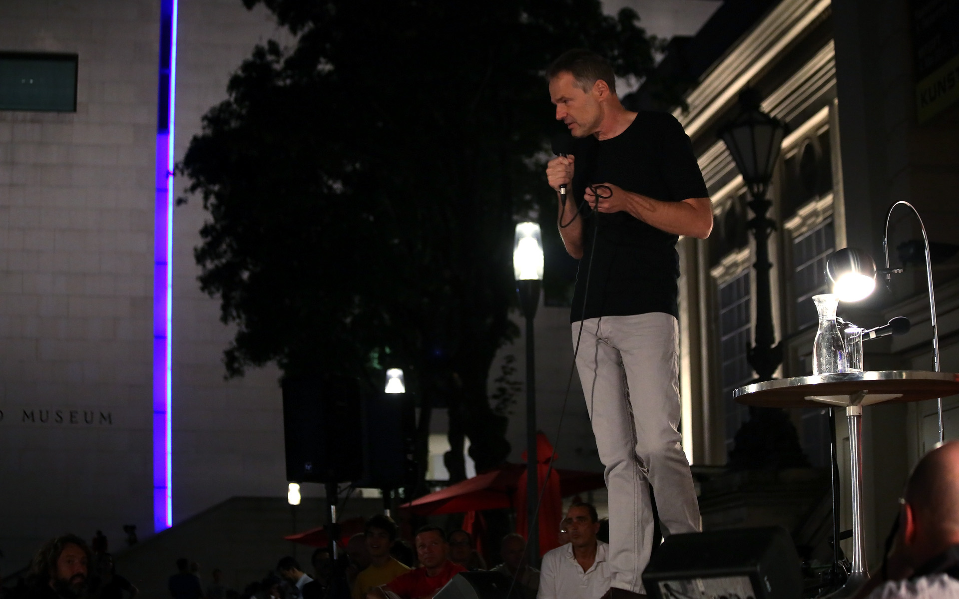 Writer Wolf Haas at O-Töne 2012. Museumsquartier in Vienna.